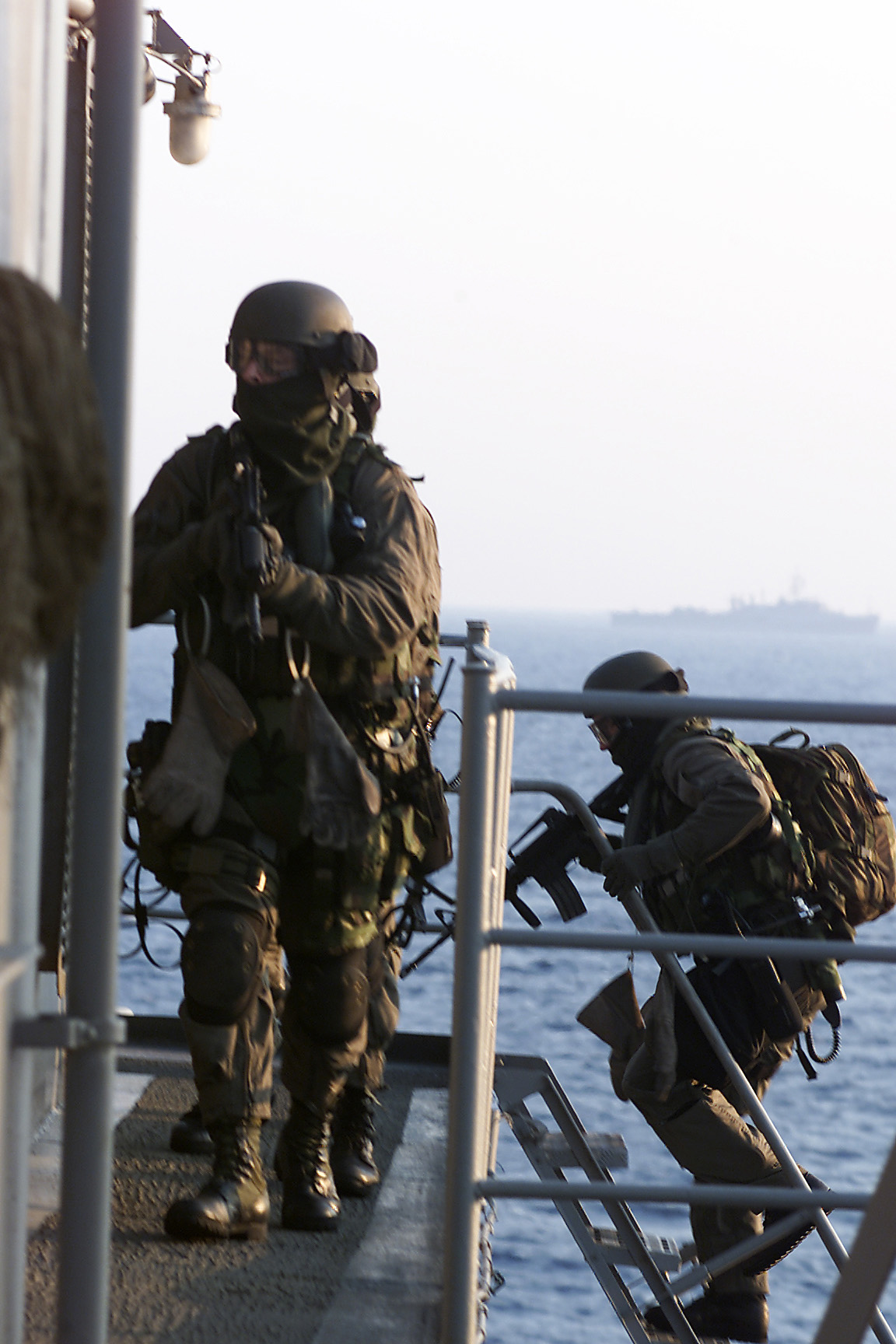 Team operators of Force Recon conduct a Vessel, Board, Search and Seizure (VBSS) training during an Military Interdiction Operation (MIO) exercise.